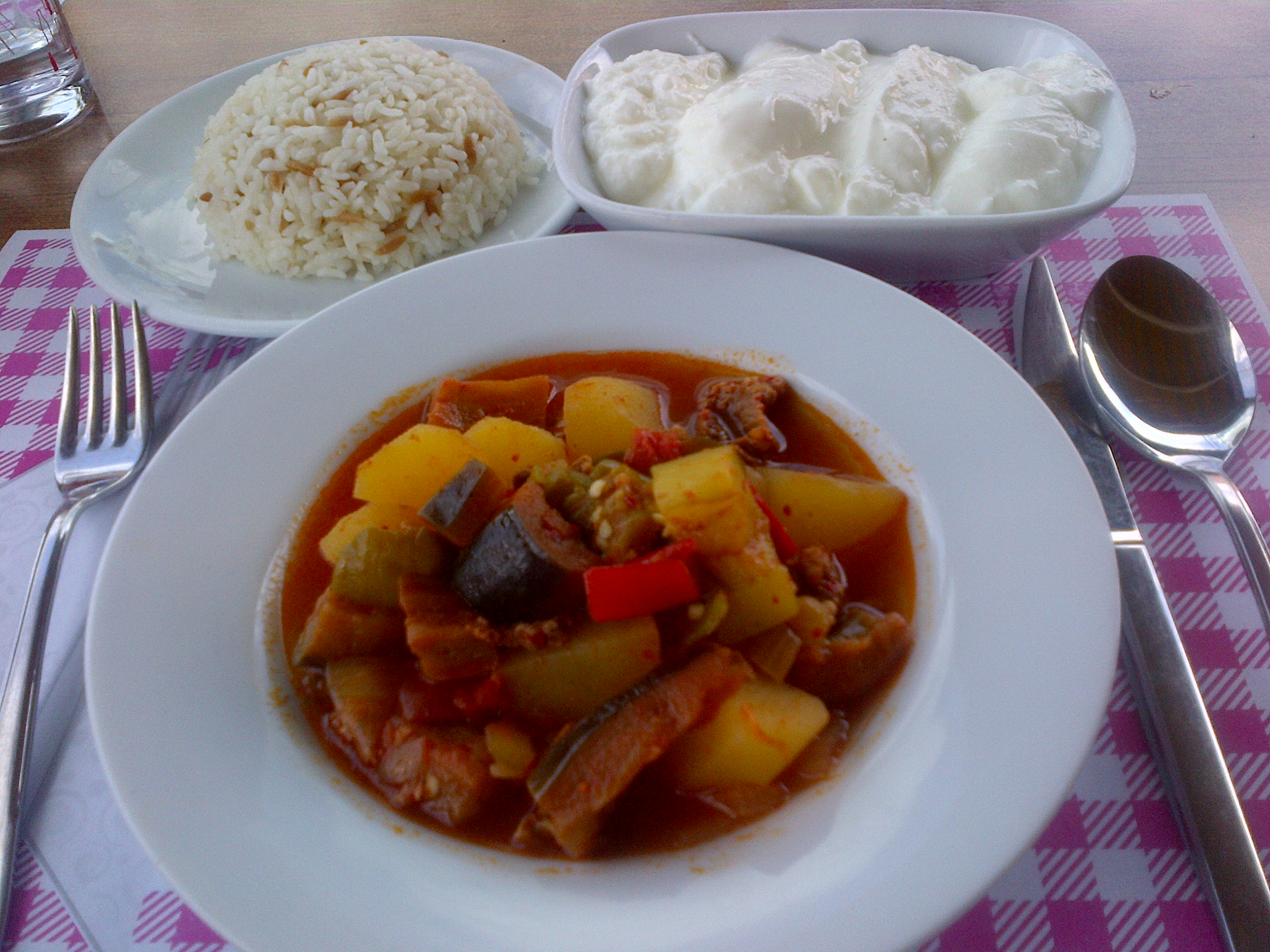 "Türlü", "şehriyeli pilav" (Turkish rice pilaf with orzo) and yogurt.